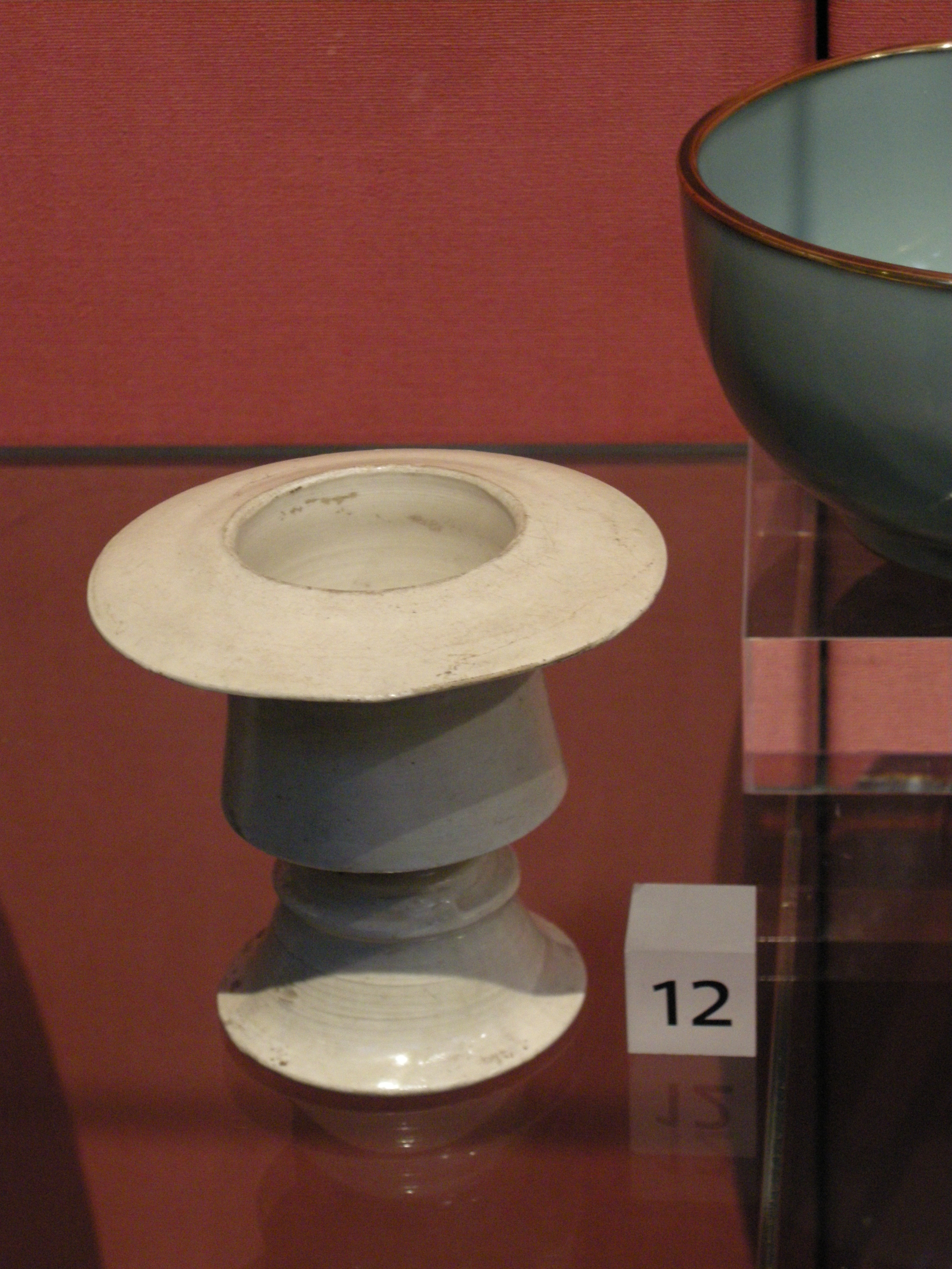 Incense burner Jin dynasty 1115-1234 Stoneware with white slip and glaze Huozhou kilns, north China Museum no. Circ.105-1930 Wikipedia Loves Art at the Victoria and Albert Museum This photo of item # 105-1930 at the Victoria and Albert Museum was contributed under the team name "VeronikaB" as part of the Wikipedia Loves Art project in February 2009. Victoria and Albert Museum The original photograph on Flickr was taken by VeronikaB—please add a comment to the original Flickr page whenever a use has been made on Wikipedia or another project. Project galleries on Flickr: this institution, this team